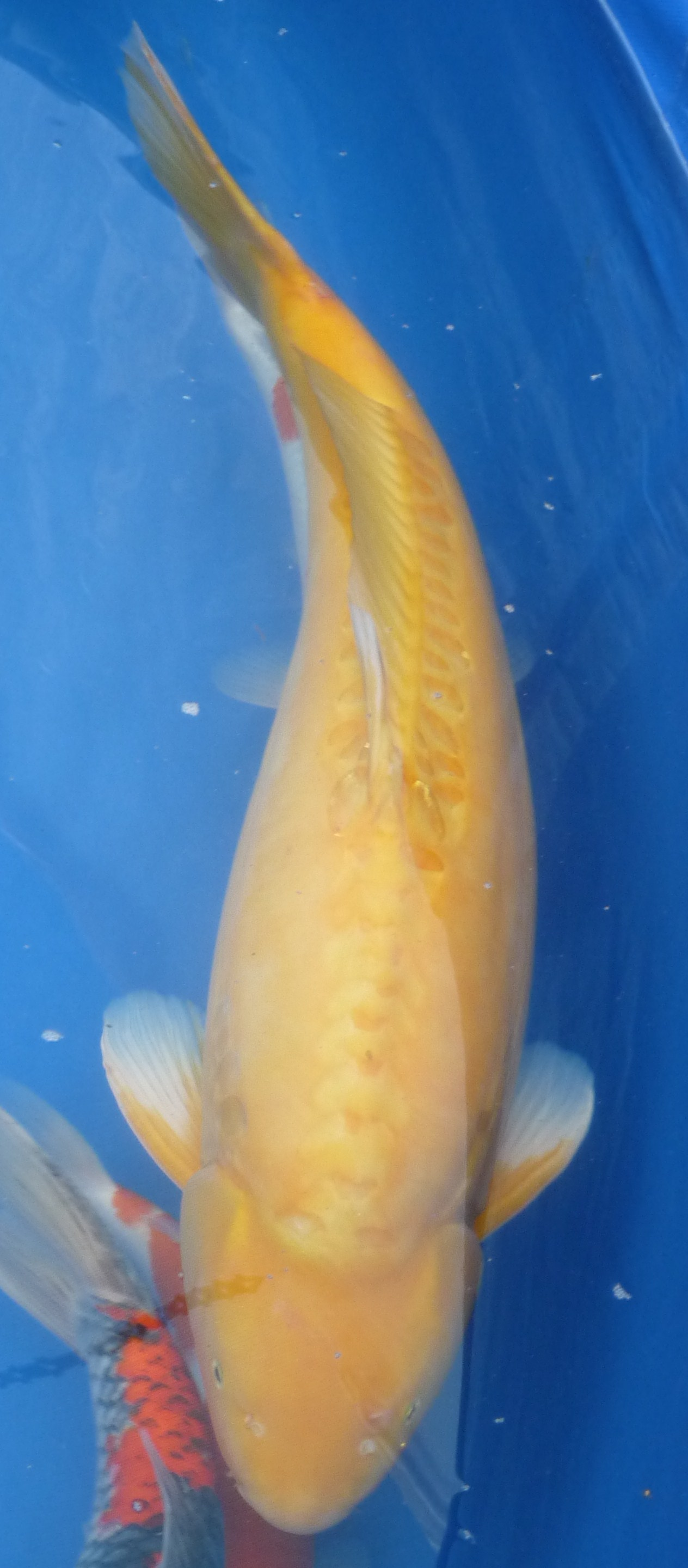 Doistsu Karashigoi (Koi)